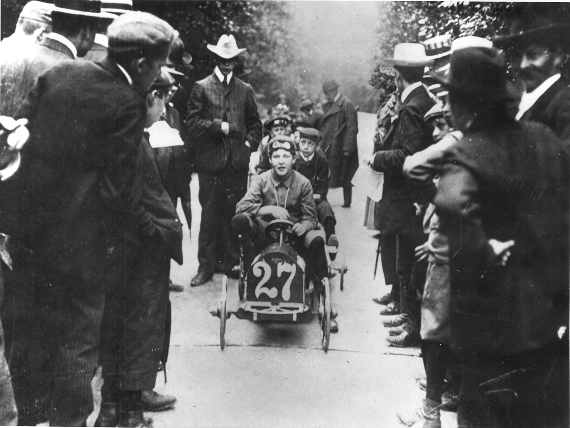 Kid Race in Kronberg August 18, 1907, with Princes Friedrich, Maximilian, Wolfgang und Philipp von Hessen-Kassel-Rumpenheim.